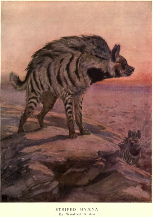 Striped hyenas, as illustrated by Winifred Austen